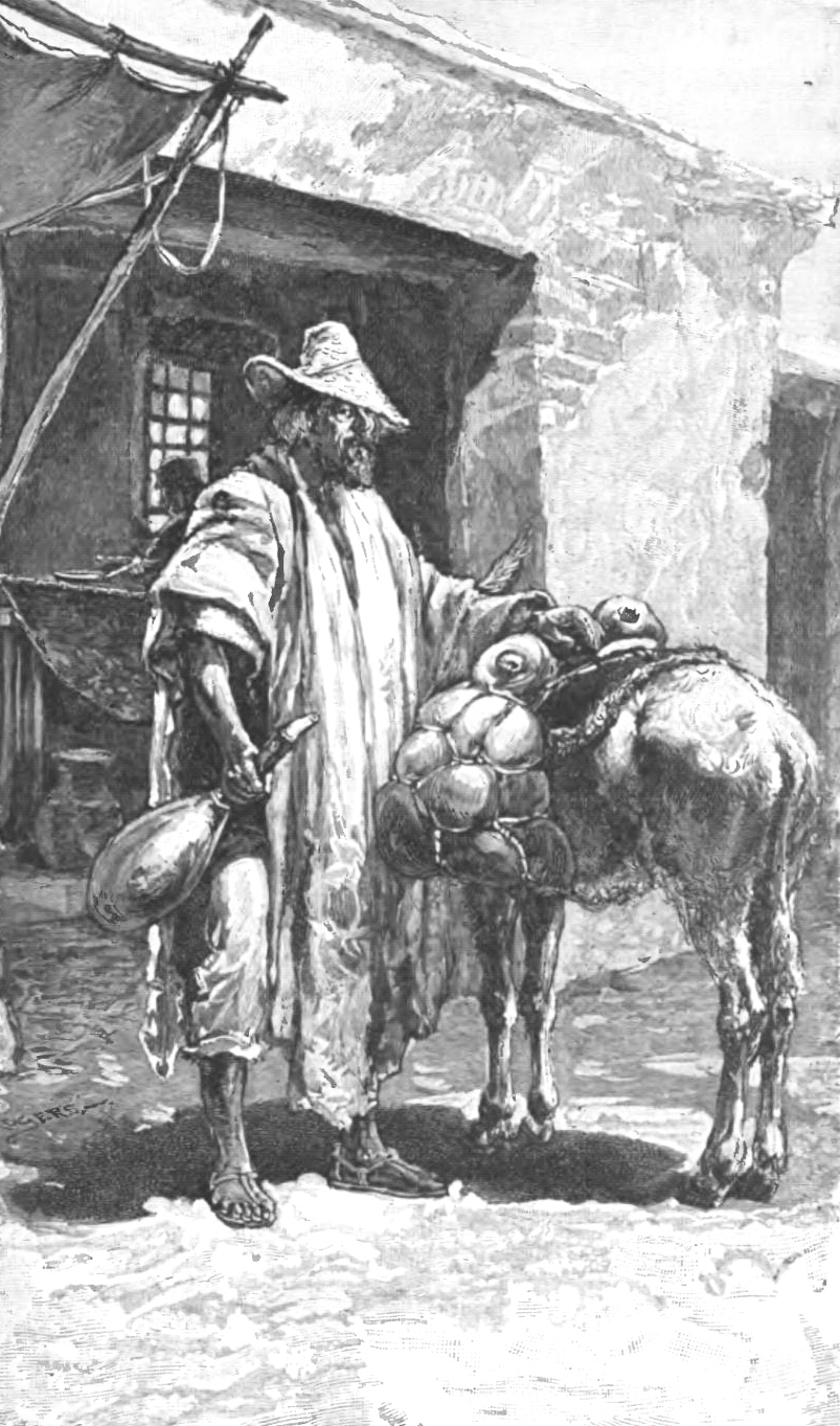 Mexico, California and Arizona; being a new and revised edition of Old Mexico and her lost provinces (1900).